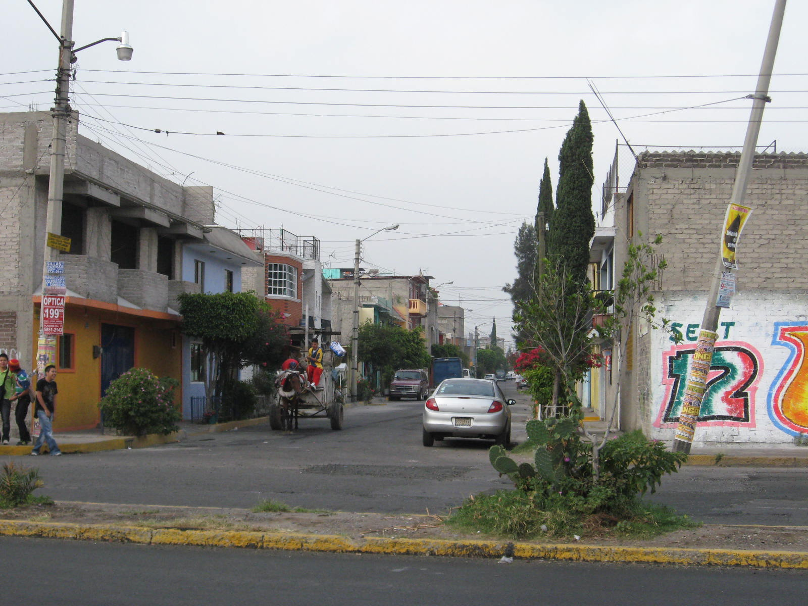 View of small residential street in Ciudad Nezahualcoyotl, Mexico with horse-drawn garbage "truck"